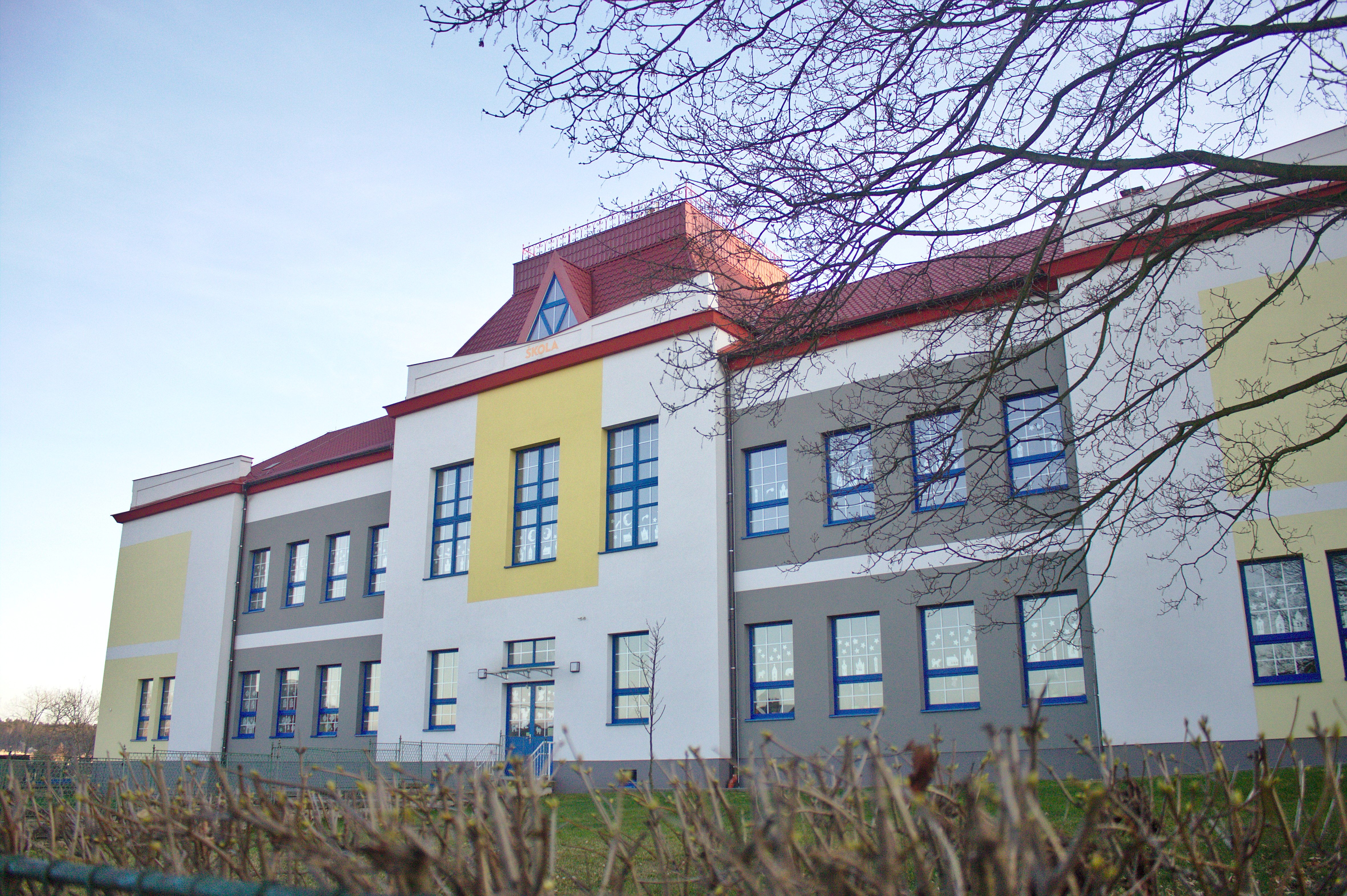 Elementary school in Kamenné Žehrovice, CZ Project: Fotíme Česko